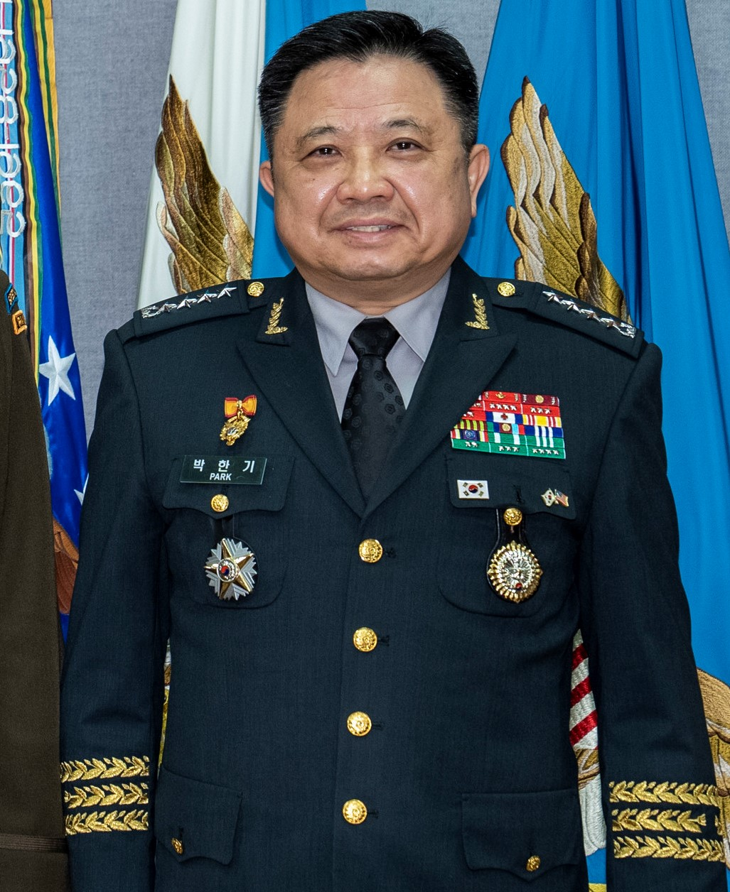 Republic of Korea Joint Chiefs of Staff Gen. Hanki Park